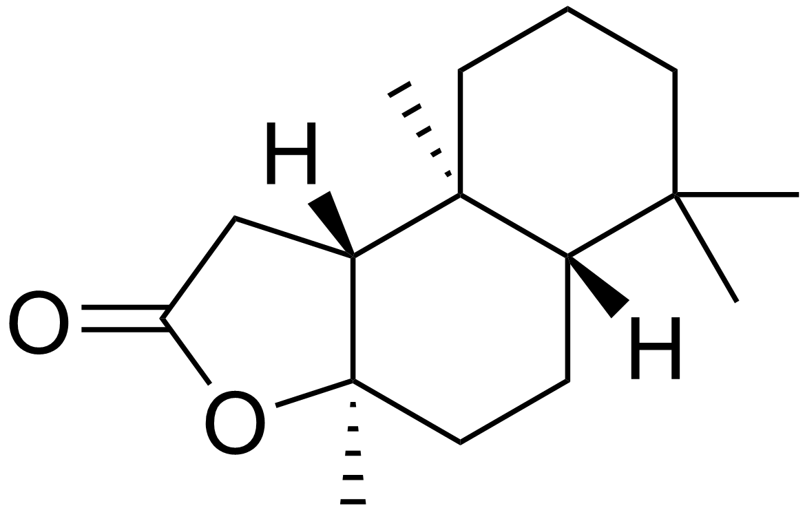 Chemical structure of sclareolide